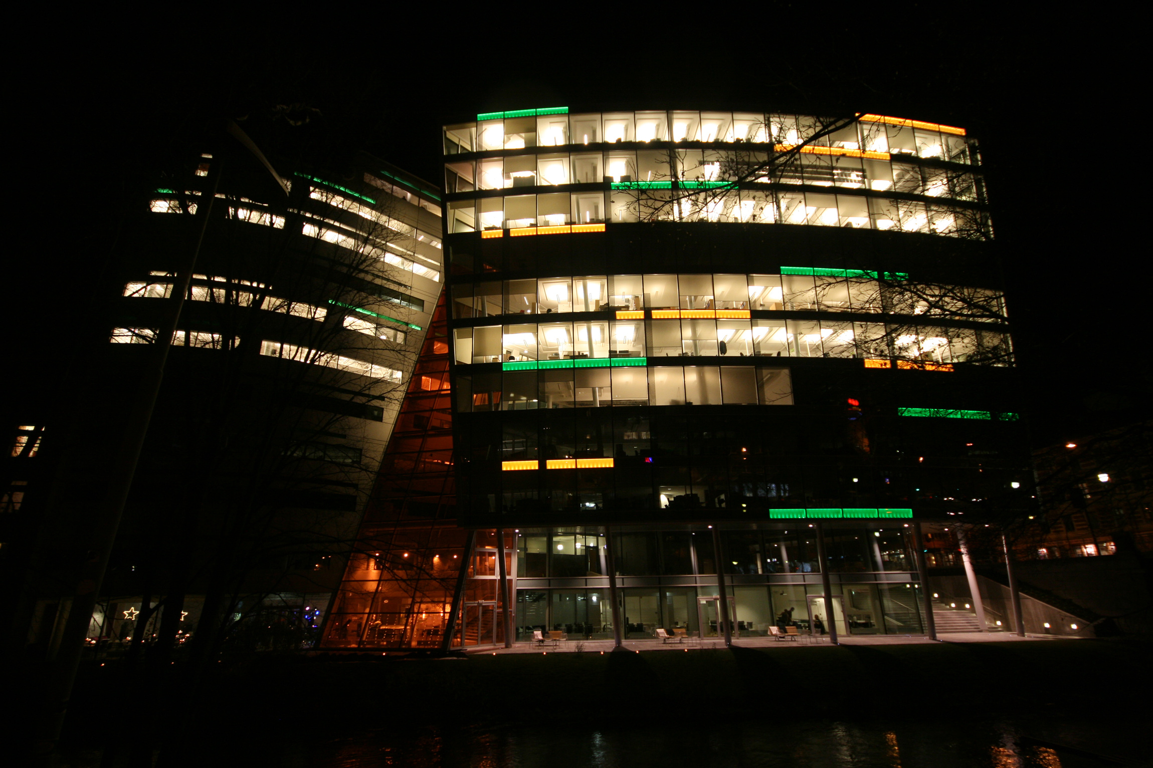 Christian Krohgs gate 16, new office building at Akerselva in downtown Oslo. Architects: Peter Pran (NBBJ, Pran Arkitekter AS/Bambus Arkitekter AS)